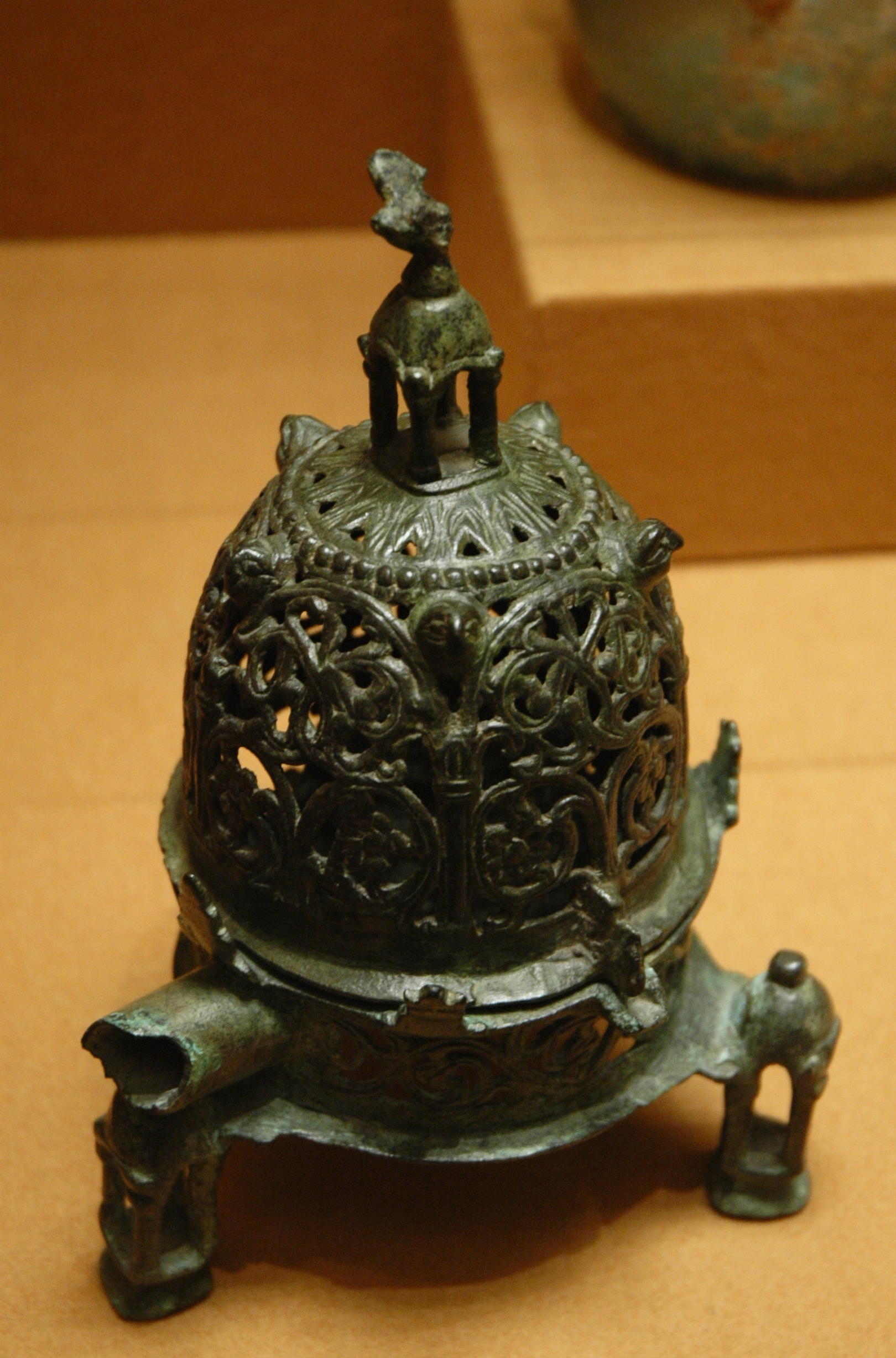 Tripodic perfume burner with architectural decoration.